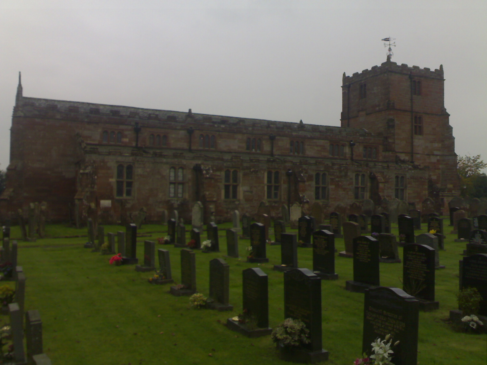 Arthuret Church in Longtown England